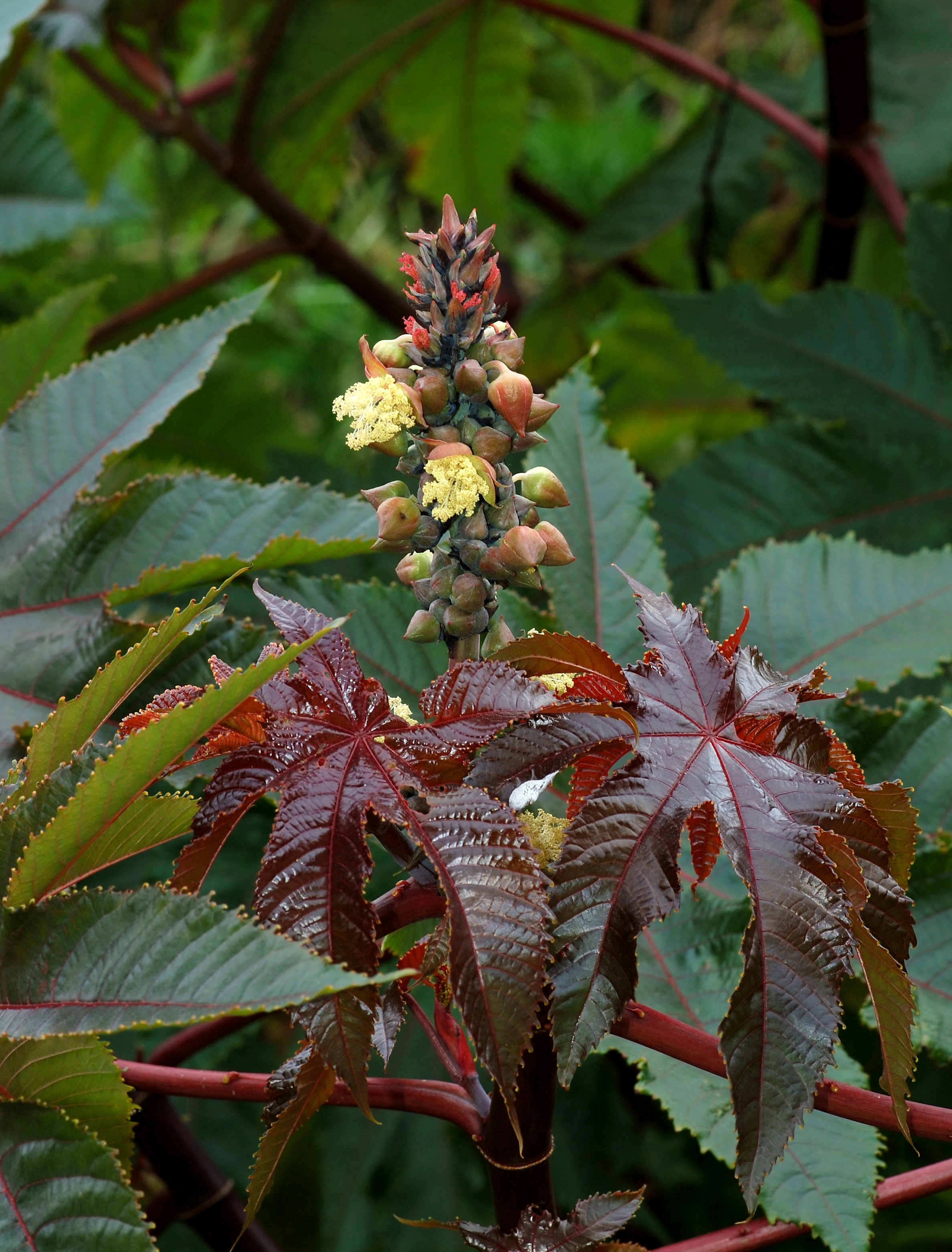 Leaves and flowers of Ricinus communis (Castor oil plant). Female flowers on top (red); male flowers below (yellow).